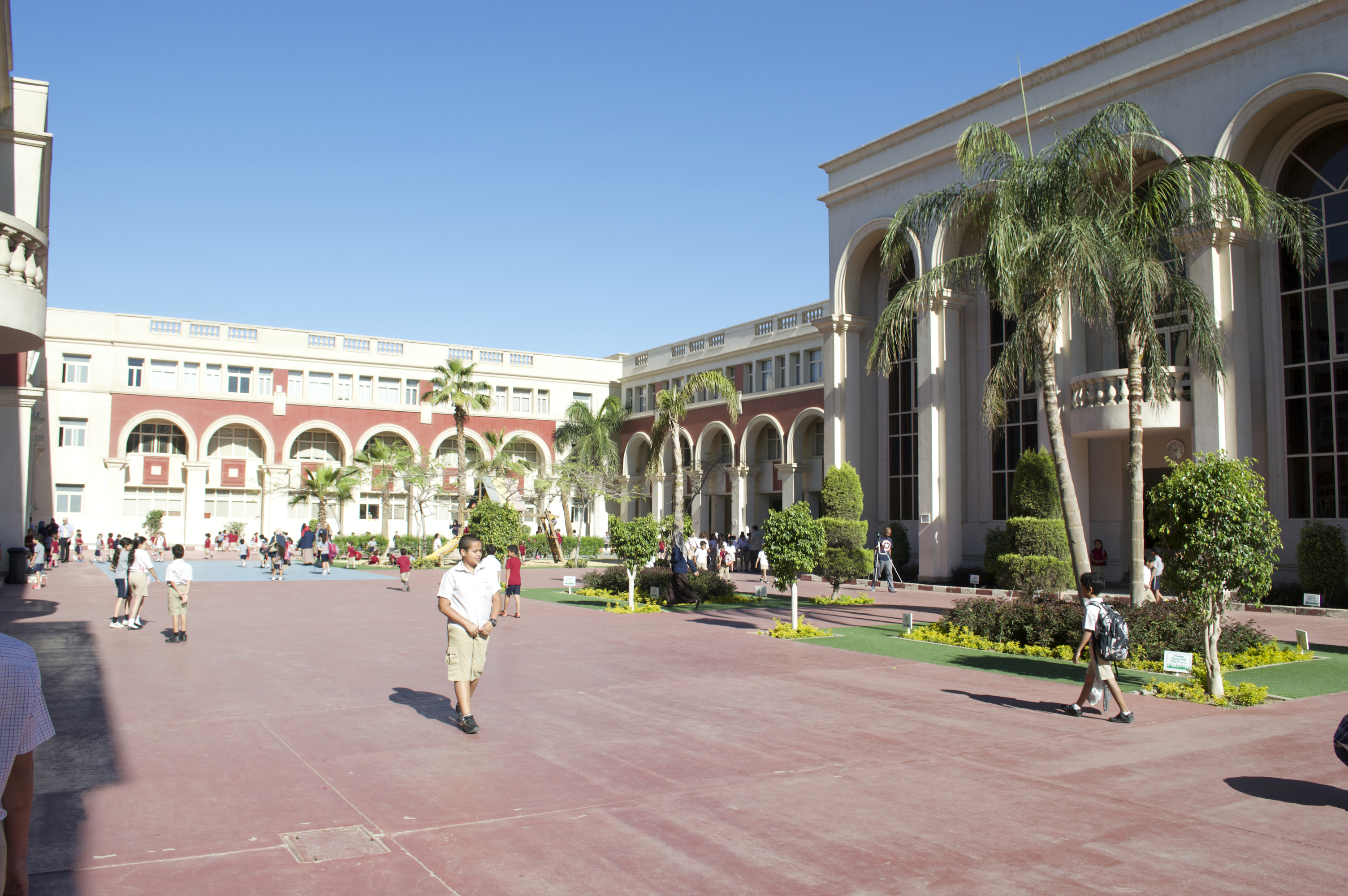 Cairo English School in Egypt